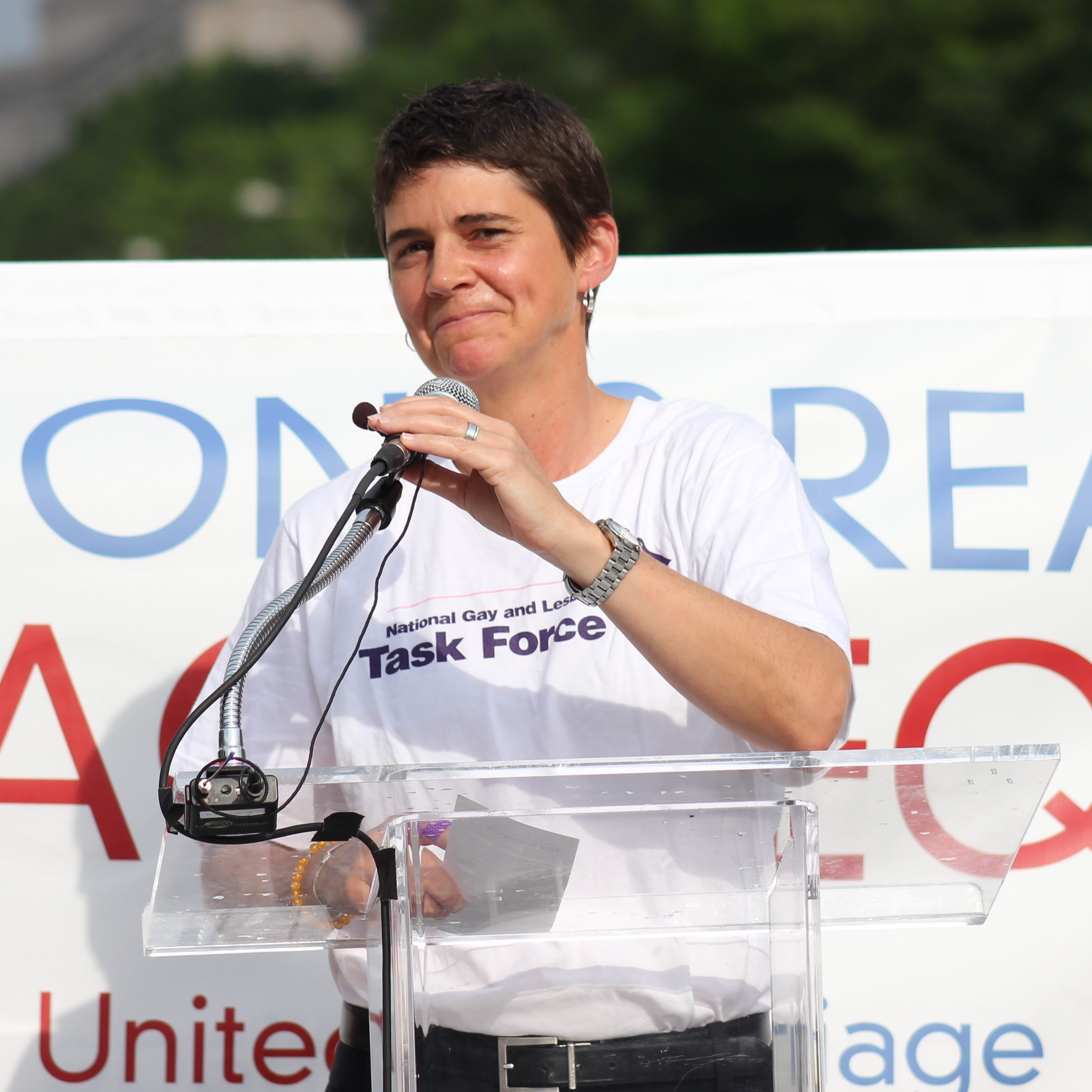 Rea Carey, executive director of the National Gay and Lesbian Task Force, speaking at the Decision Day Marriage Equality rally in Freedom Plaza in Washington, DC on 26 June 2013